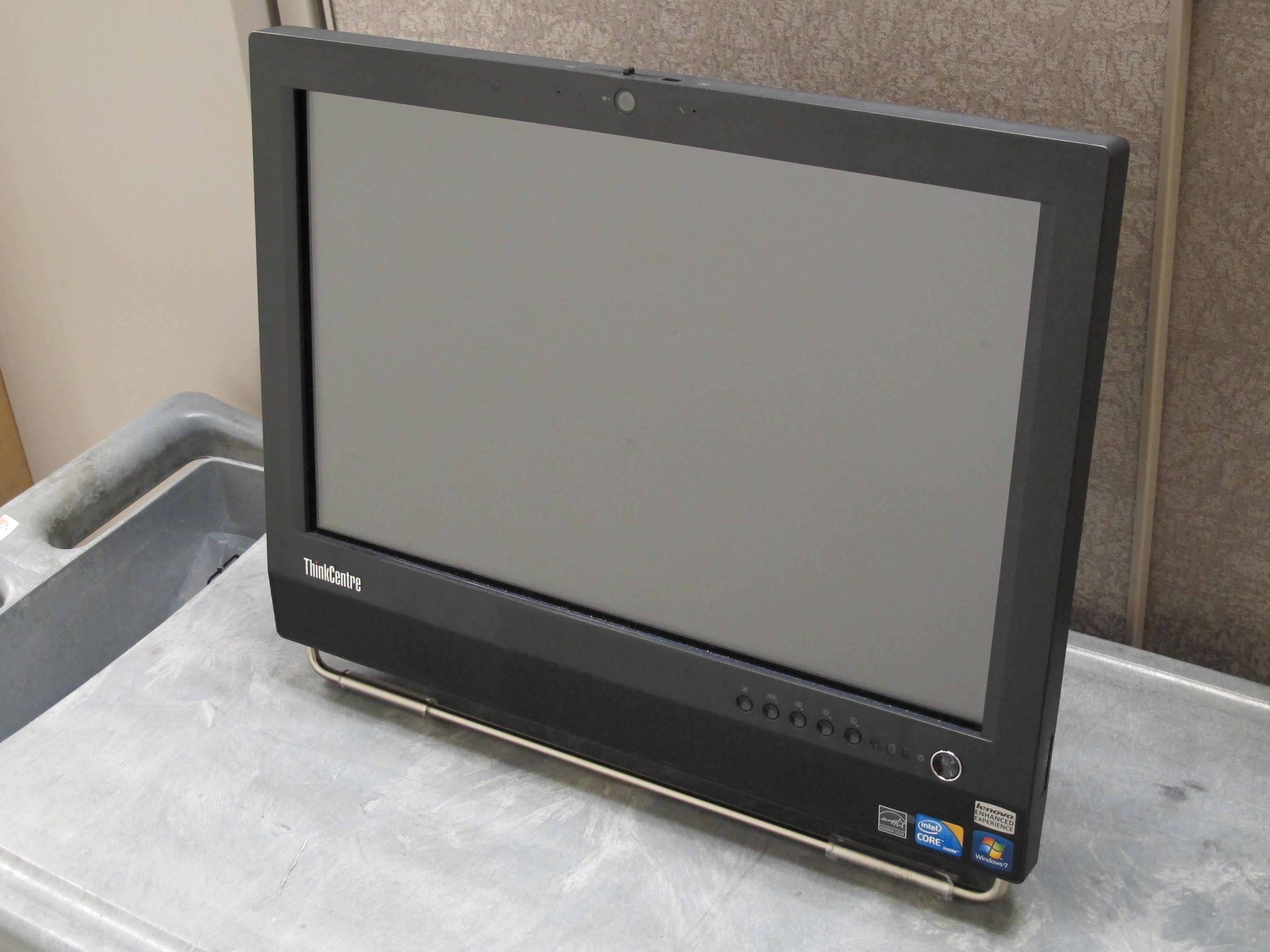 Lenovo ThinkCentre M70z/M90z business all-in-one PC.